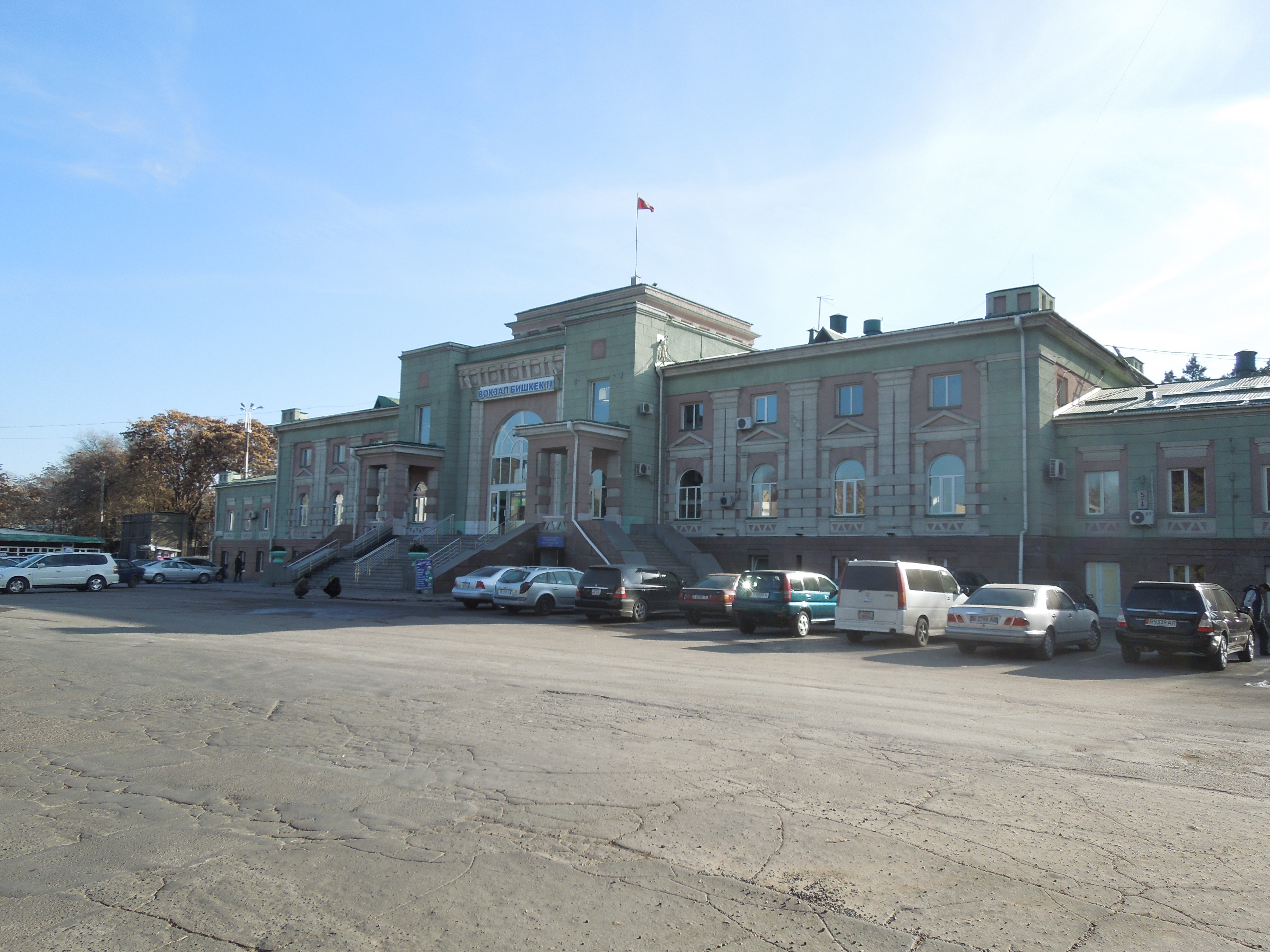 Bishkek II railway station (Nov. 2013)